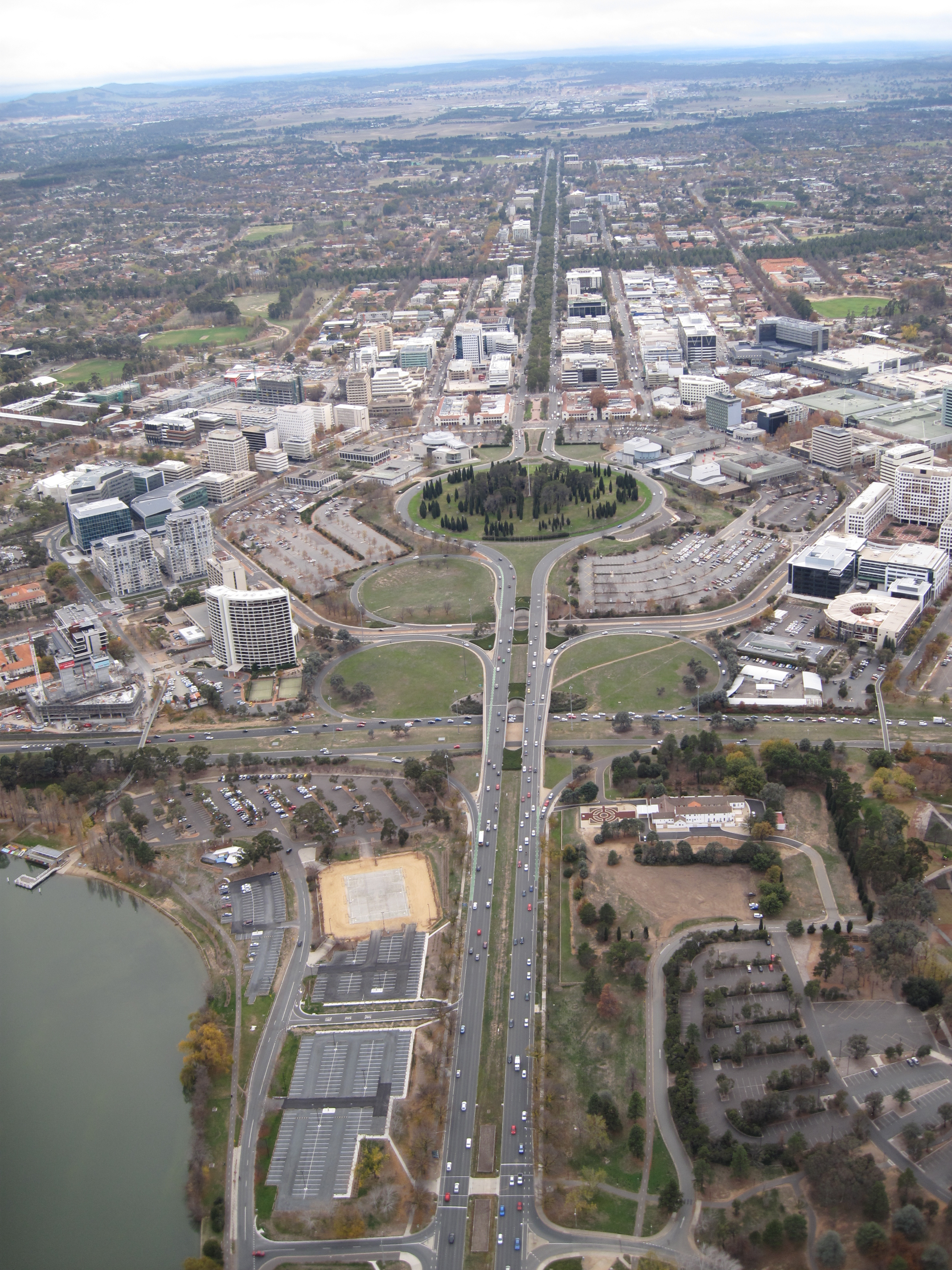 Canberra: aerial view of Civic and Northbourne Ave, looking northward.